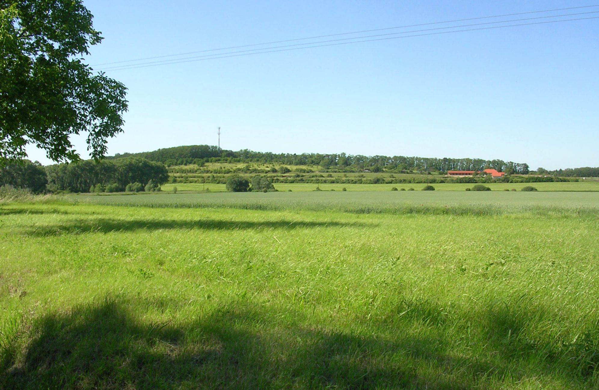 Bechlín, Litoměřice District, the Czech Republic. Klouček Hill. - Google Maps - Google Earth